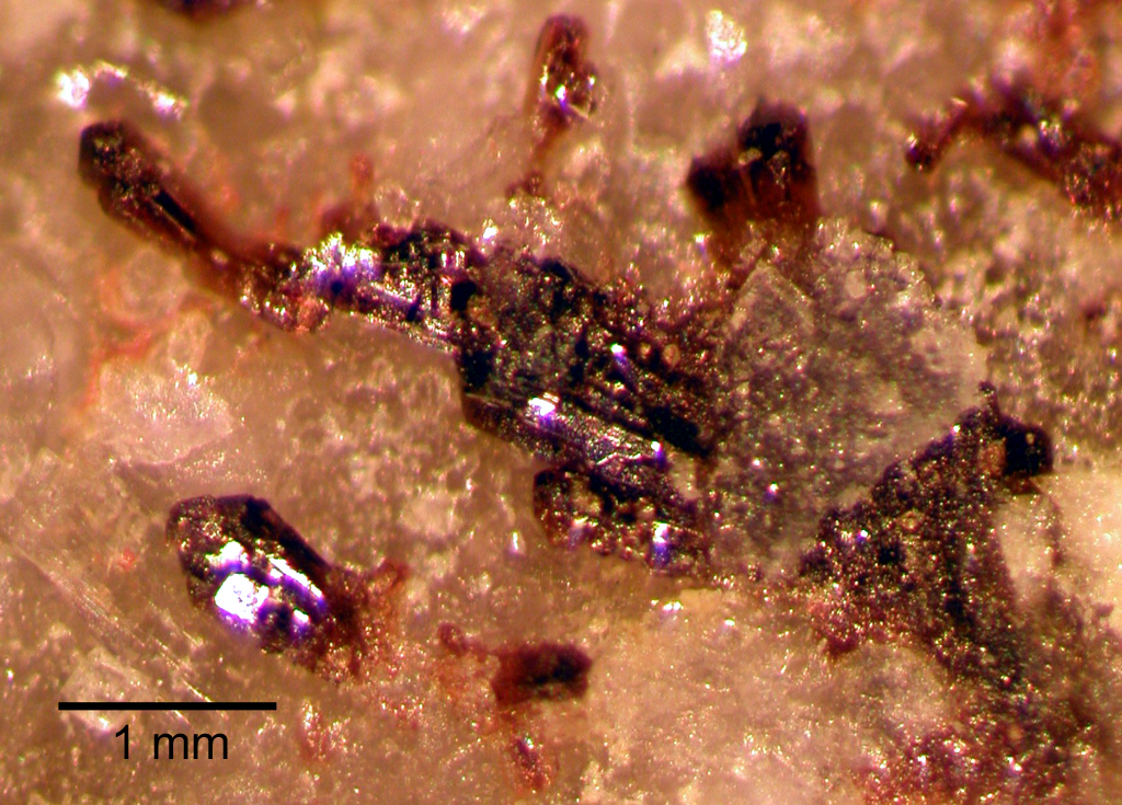 Zemmanite crystals (brown) associated with paratellurite (white) from Moctezuma, Sonora, Mexico